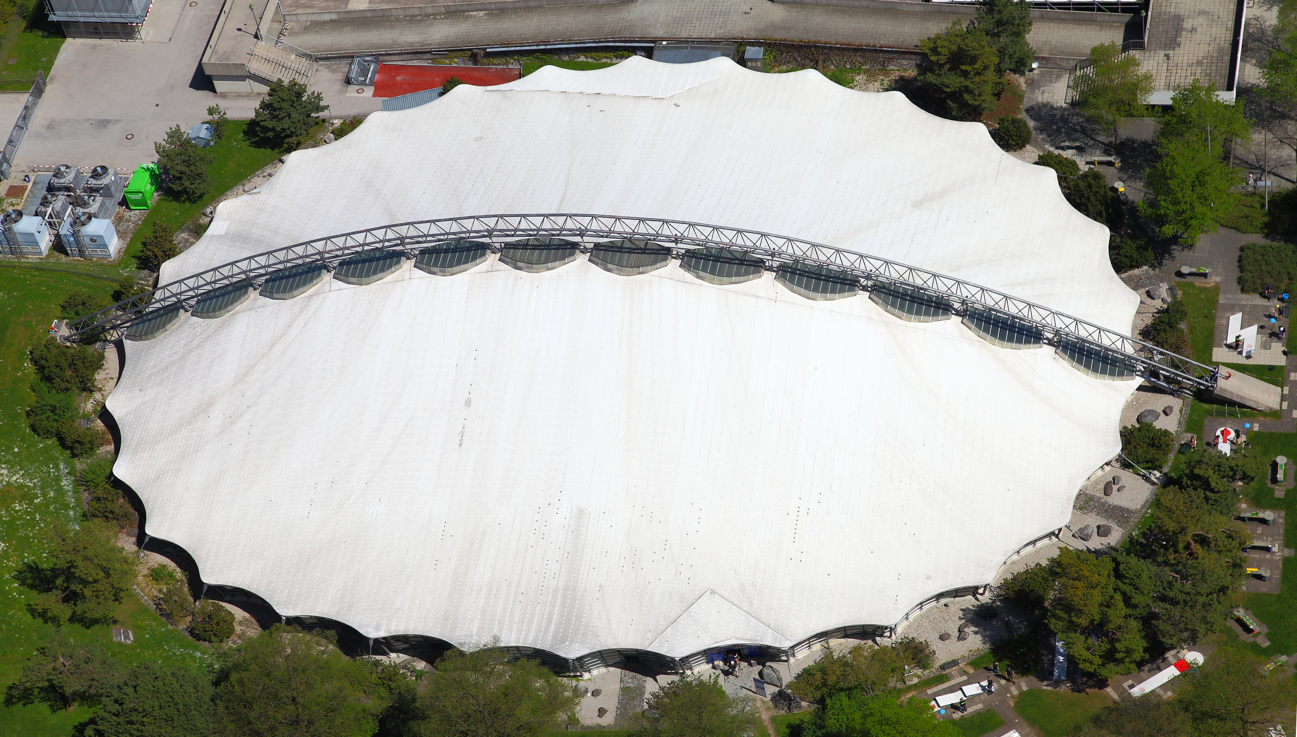 Olympia Eissportzentrum, Munich, Germany